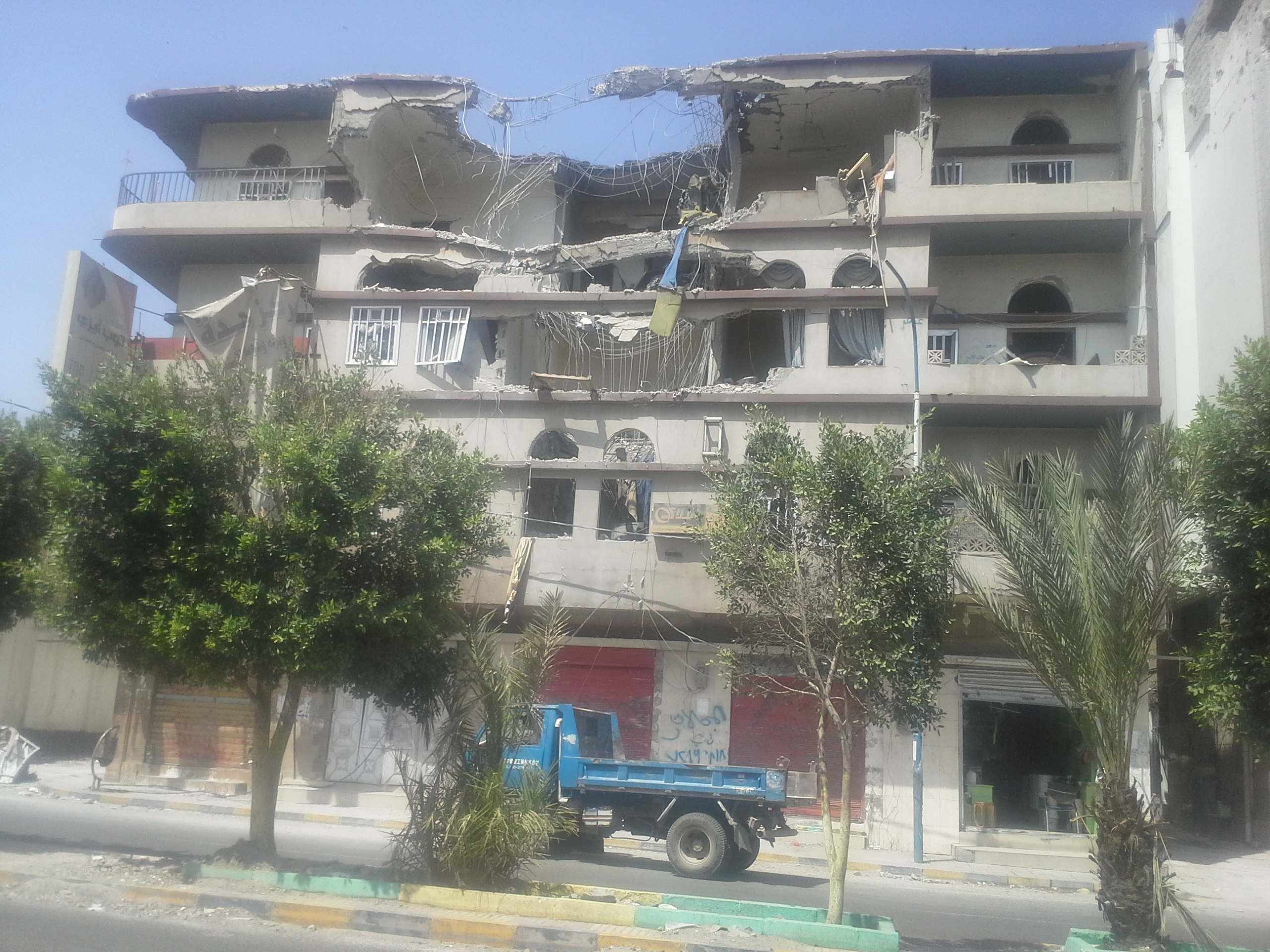 Apartment building destroyed in 5 September 2015 in Sana'a - Hadda Street.